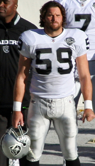 Jon Condo, a player on the Oakland Raiders American football team.